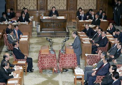 Ichirō Ozawa, President of the Democratic Party of Japan, debated with Yasuo Fukuda, Prime Minister, at the Committee on Fundamental National Policies Joint Meeting of Both Houses at the National Diet Building in Chiyoda Ward, Tōkyō Metropolis on January 9, 2008.